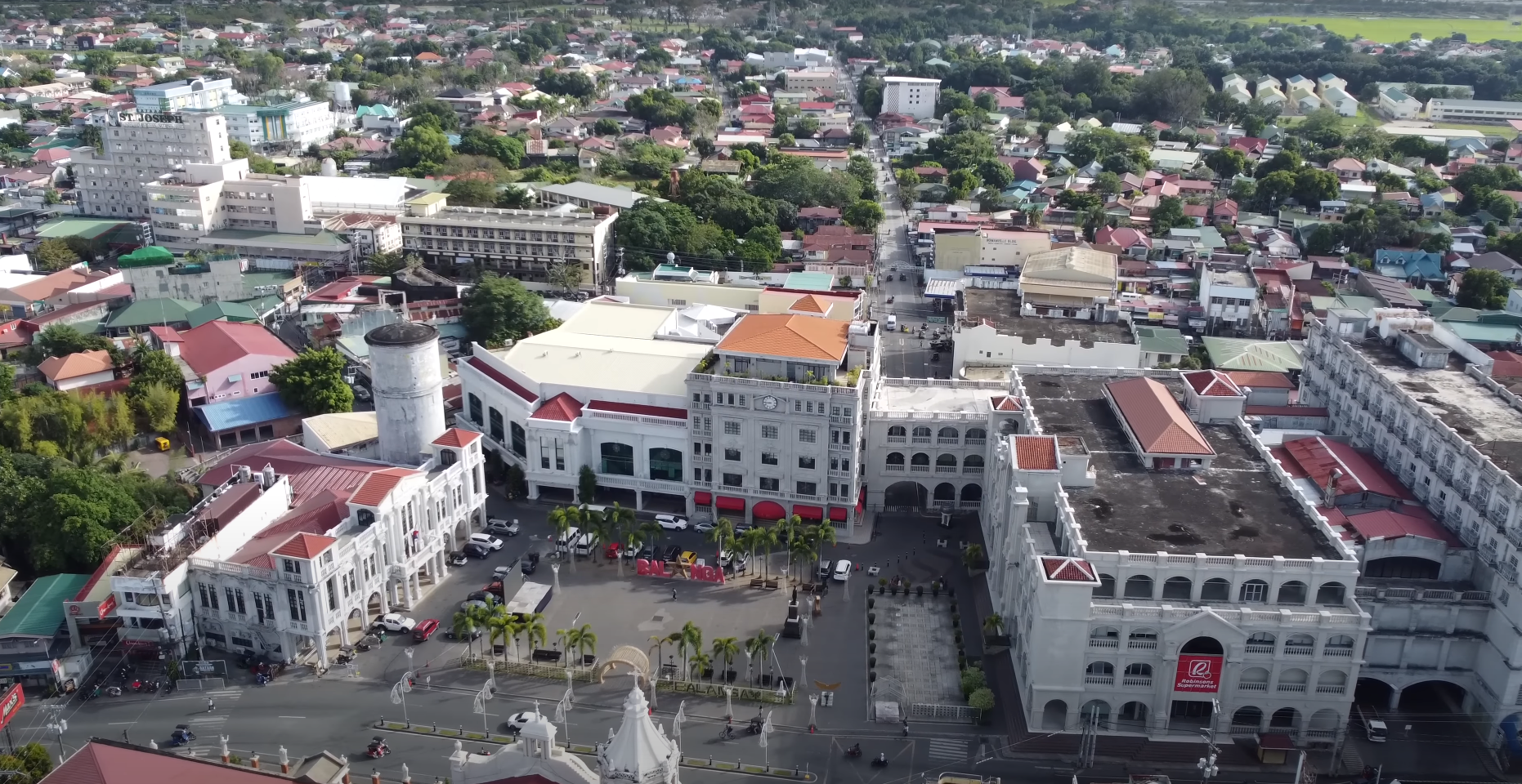 Plaza Mayor de Balanga at Night